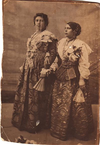 Traditional dress of Albanian/Arbëreshë women in Piana degli Albanesi.